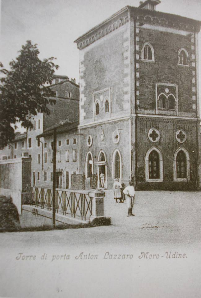 Porta San Lazzaro